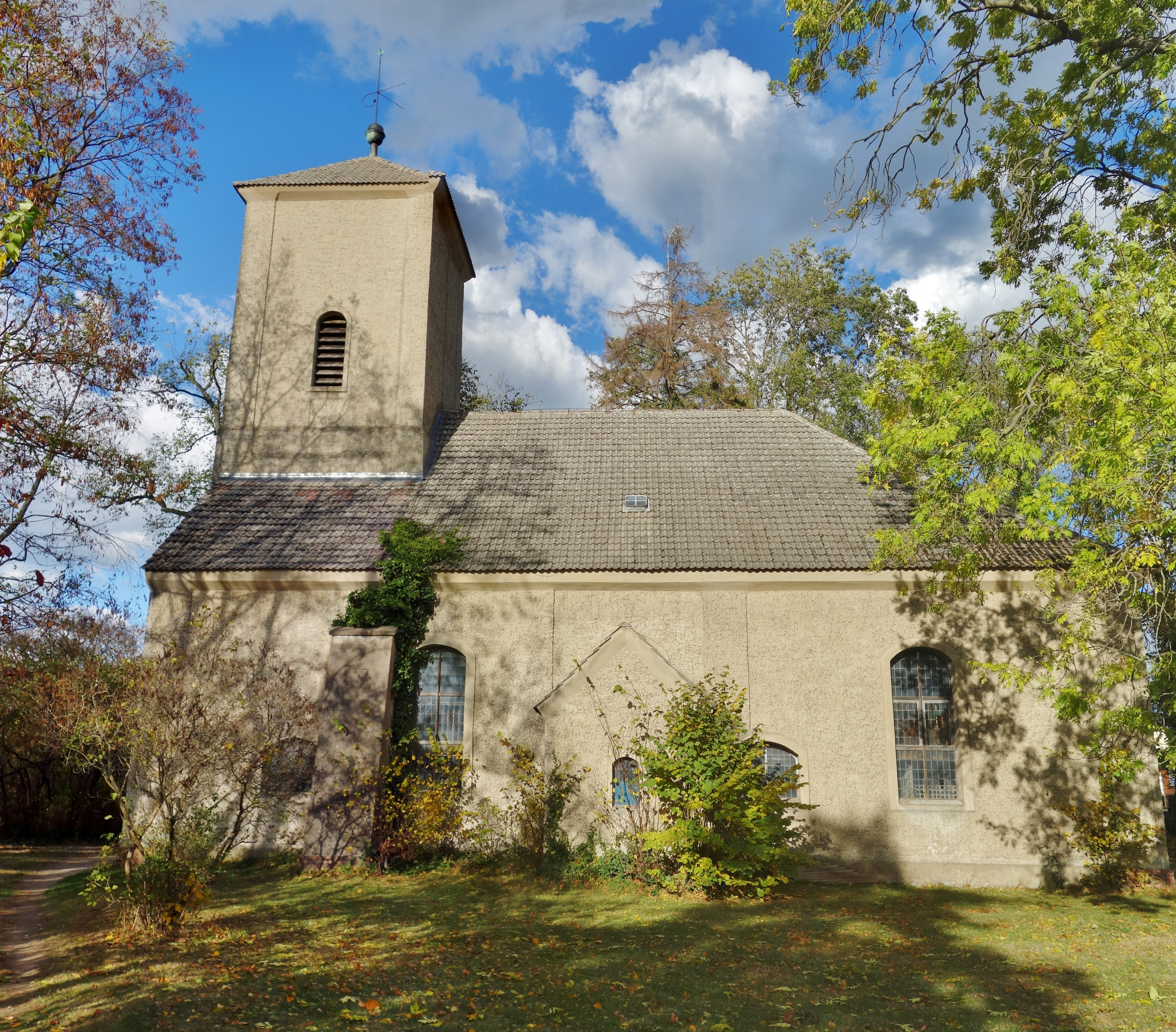 Southern view of the church in Pfaffendorf , Rietz-Neuendorf municipality , Oder-Spree district, Brandenburg state, Germany